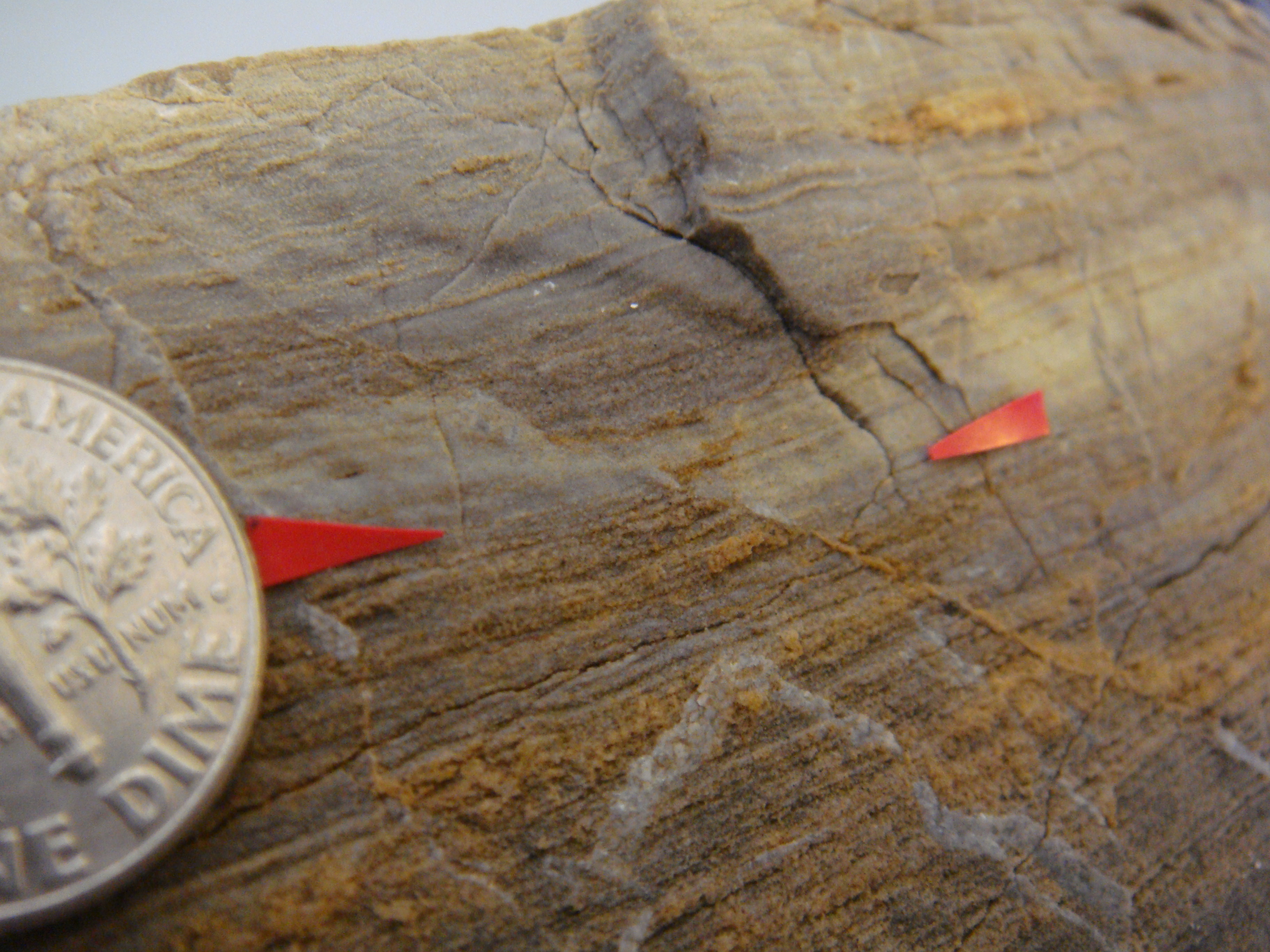 Microfault in a sedimentary rock, US dime for scale. Red arrows show amount of offset.